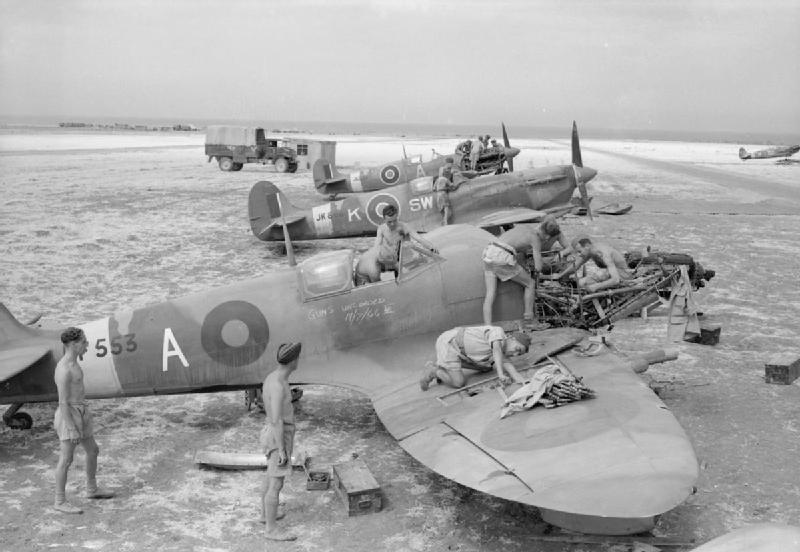 Royal Air Force- Italy, the Balkans and South-east Europe, 1944-1945. Yugoslav partisans learning to maintain Supermarine Spitfire Mark VCs, under the supervision of RAF ground crew members at Canne, Italy. The aircraft, (front to rear) are: EF553 'A' of No. 32 Squadron RAF; JK 226 'SW-K', of No. 253 Squadron RAF, and JK868 'A', also of 32 Squadron.